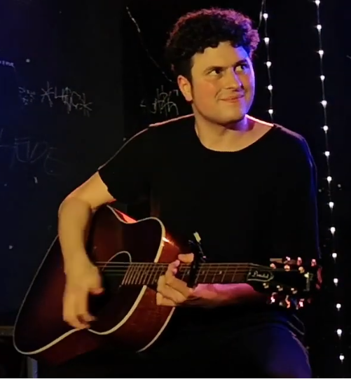 Joschka Bender during Madeline Junos Acoustic Tour 2019 at The Tube, Düsseldorf.